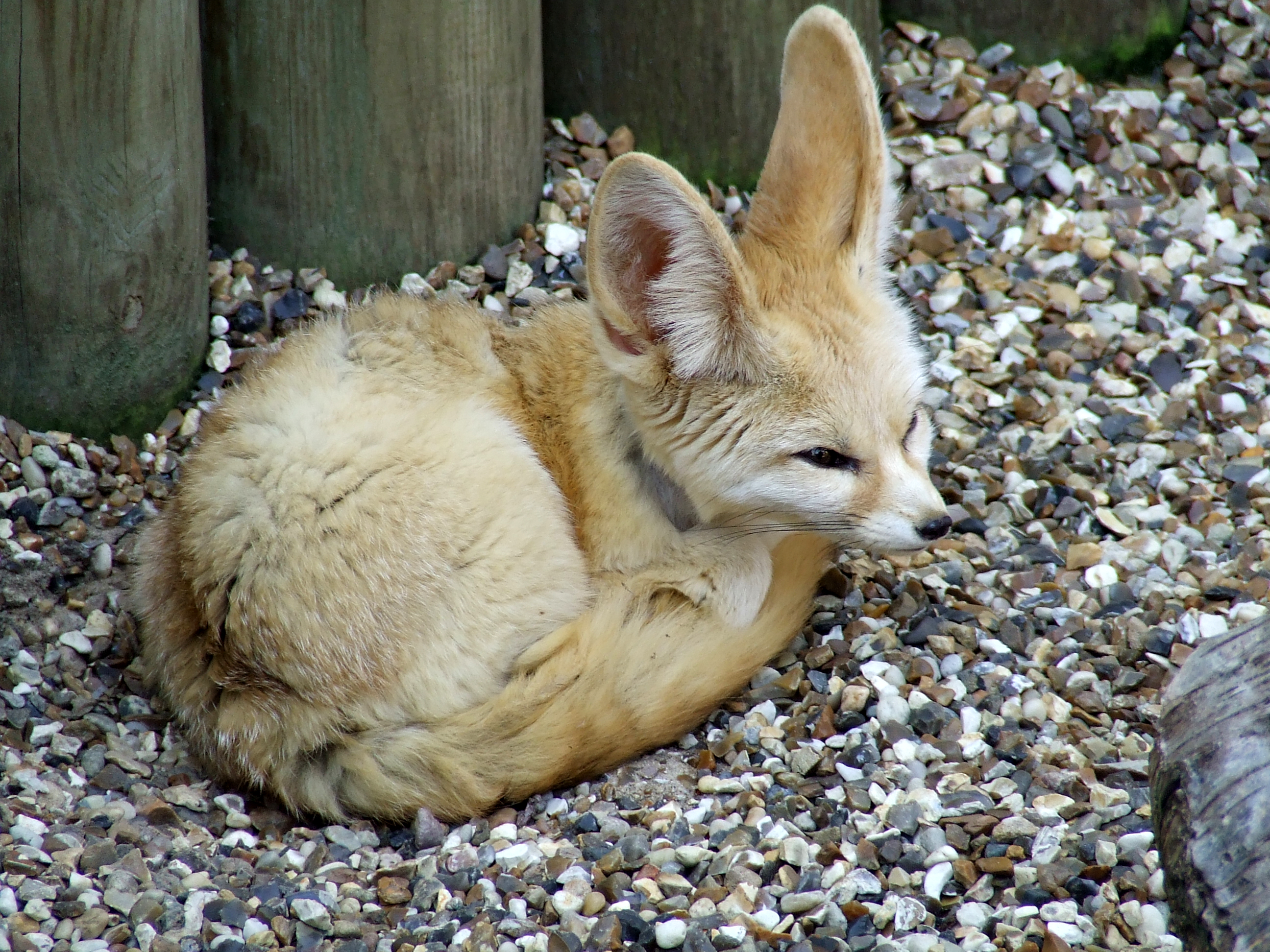 Fennec Fox at Africa Alive!, Kessingland, near Lowestoft, Suffolk, England.